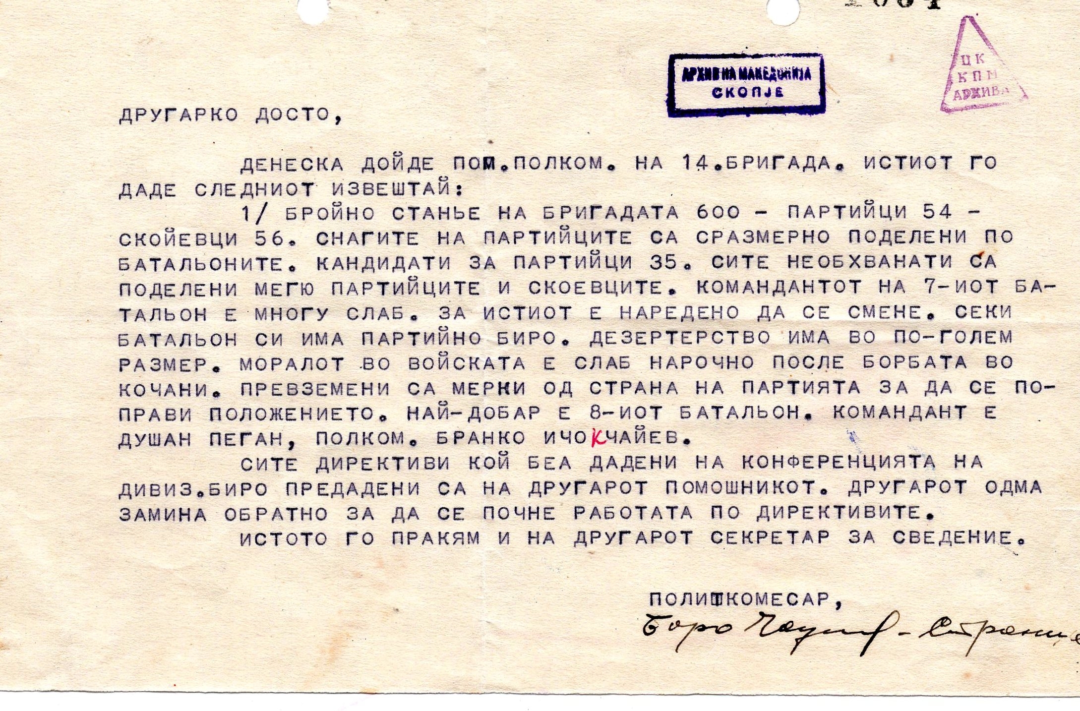 A letter from the political commissioner Boro Chaushev to Dosta (Vera Aceva), with a report from the assistant political commissioner of the 14 brigade for the general conditions of the brigade itself. This media file is produced by Wikipedian in Residence in Category:Wikipedian in Residence at DARM in 2017.